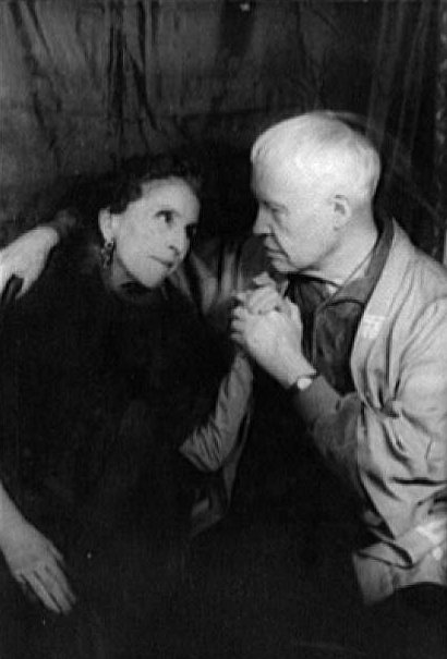 Portrait of Carl Van Vechten and Baroness Blixen (Isak Dinesen)